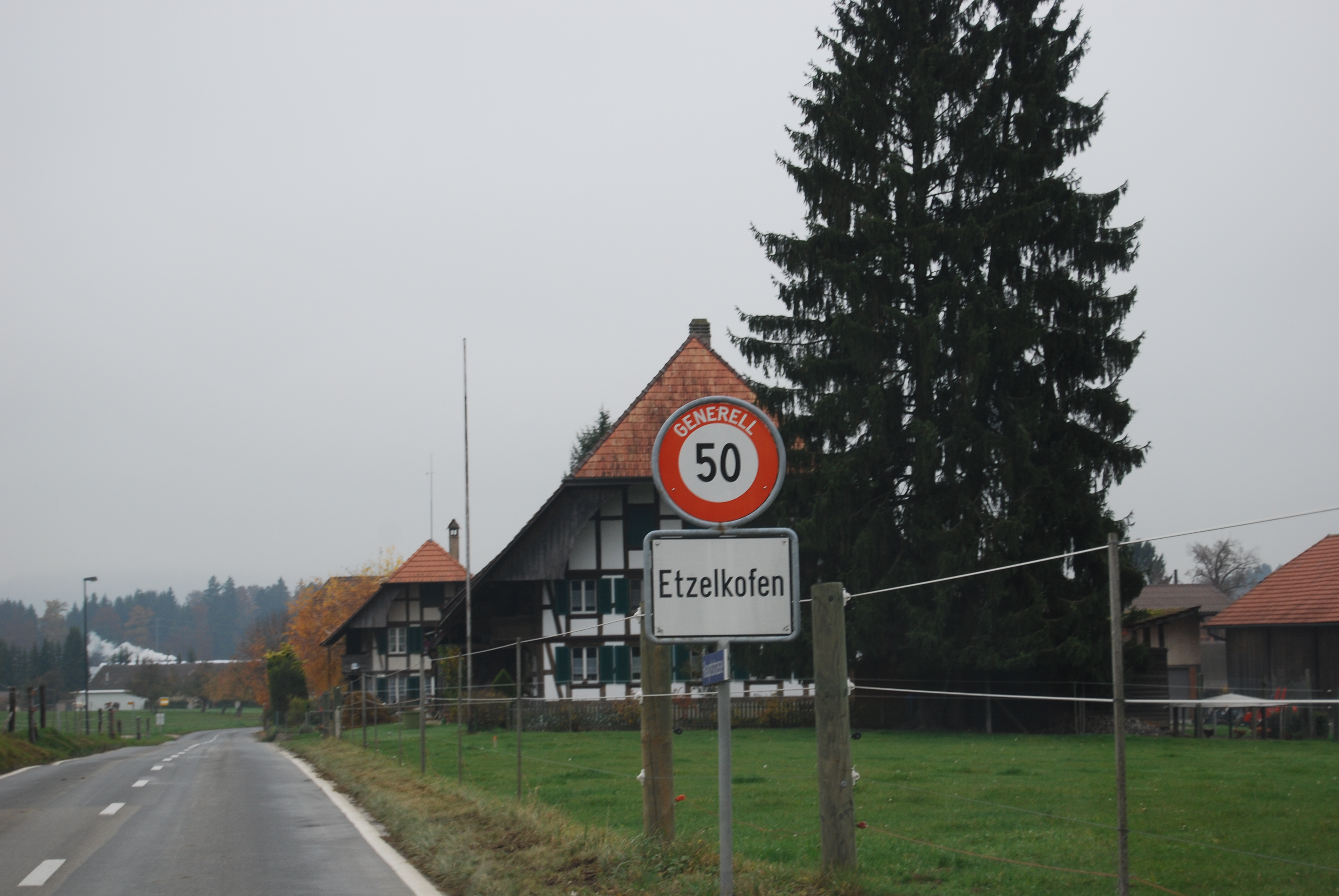 Etzelkofen, canton of Bern, SwitzerlandEsperanto: Etzelkofen, Kantono Berno, Svislando